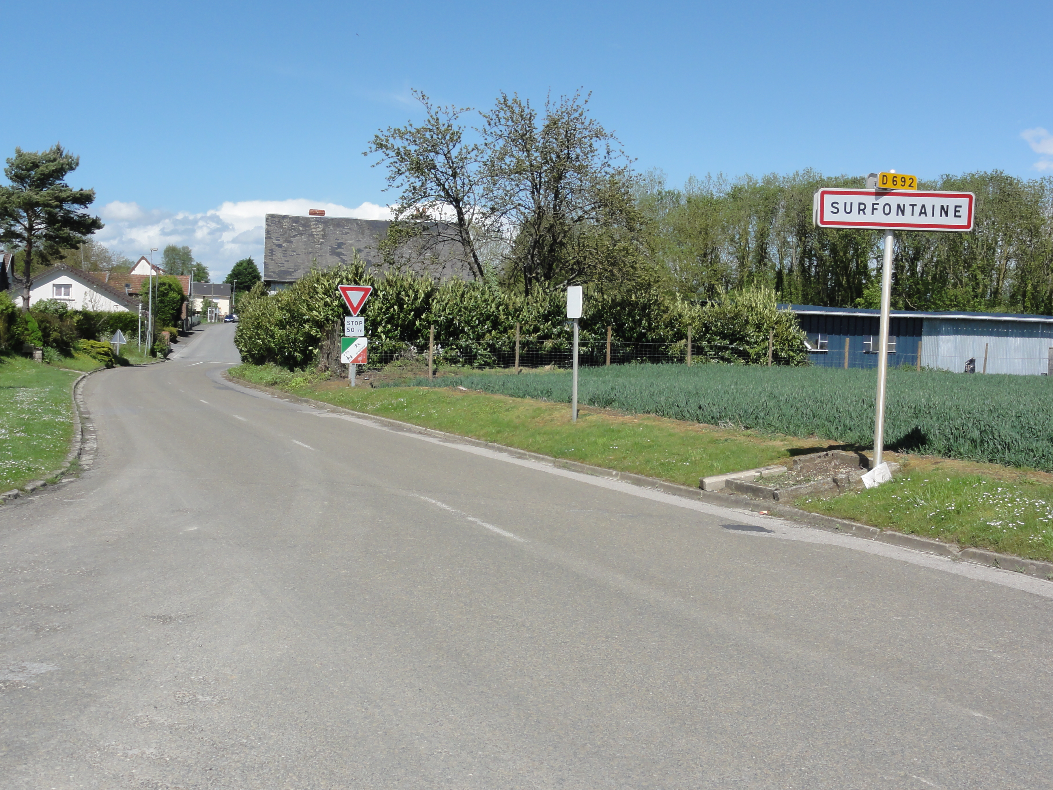 Surfontaine (Aisne) city limit sign